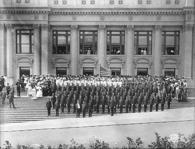 On verso of image: Fraternal Brotherhood Subjects (LCSH): Portraits, Group--Washington (State)--Seattle; Fraternal Brotherhood; Fraternal organizations--Washington (State)--Seattle; Alaska-Yukon-Pacific Exposition (1909 : Seattle, Wash.); Exhibitions--Washington (State)--Seattle